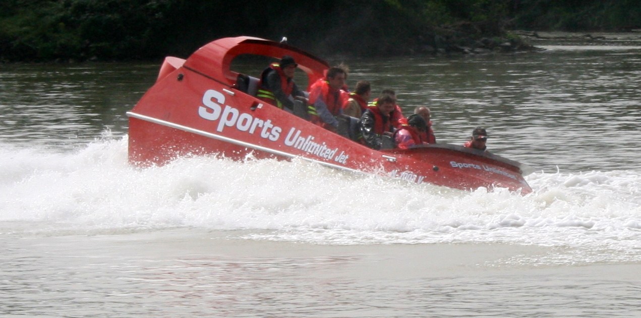 Jet Boat rides in Germany on river Danube close to the city Kelheim